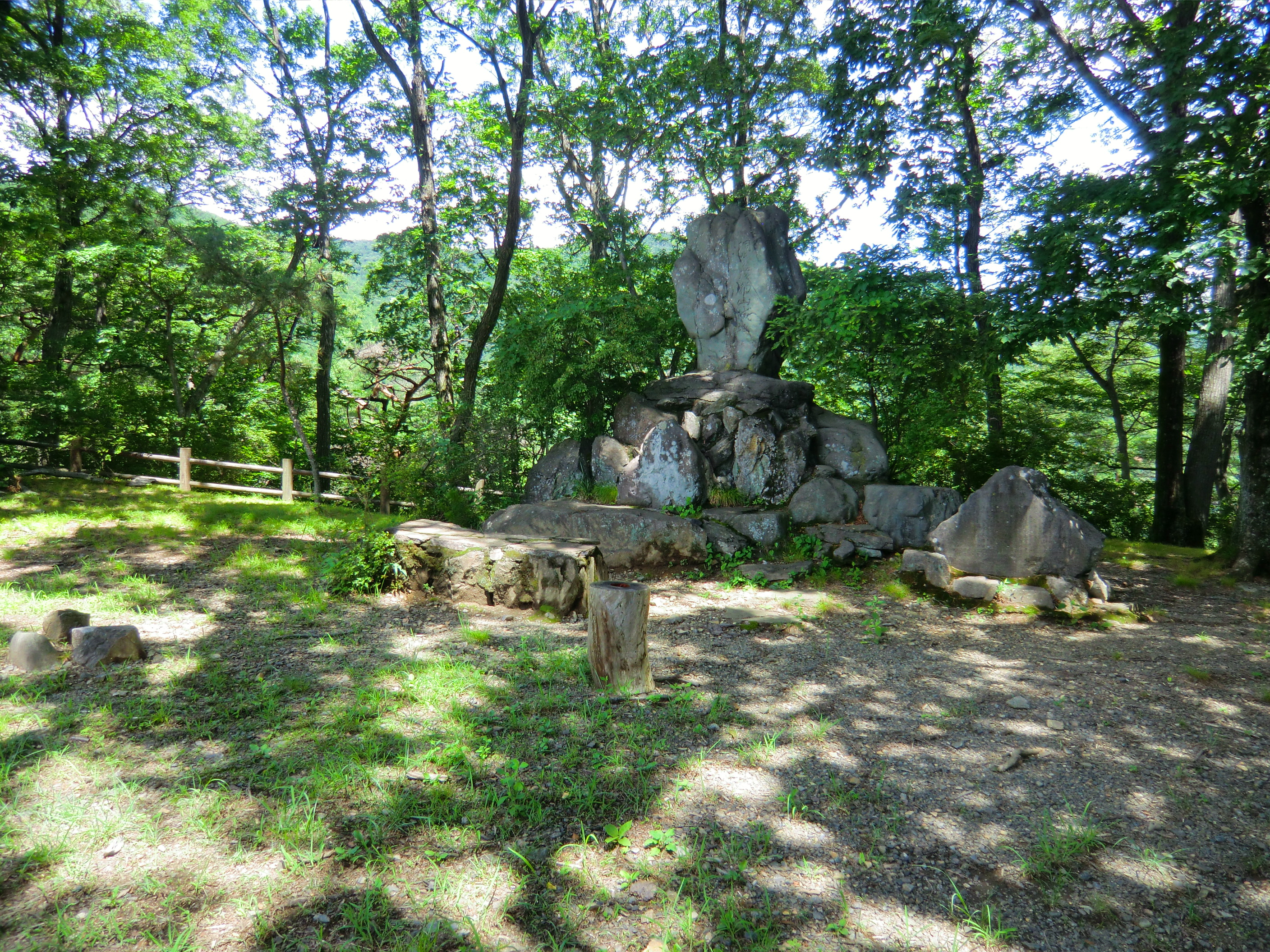 Hisyakuyama Castle